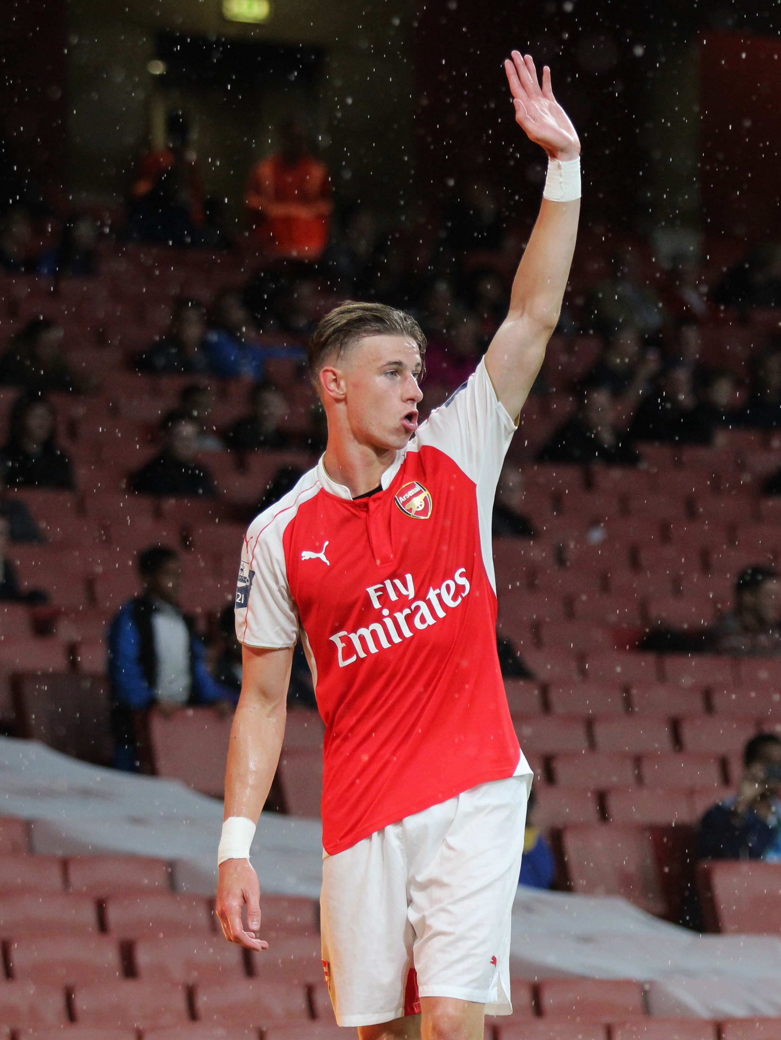 Ben Sheaf of Arsenal U21s prepares to take a corner during the game against Fulham.